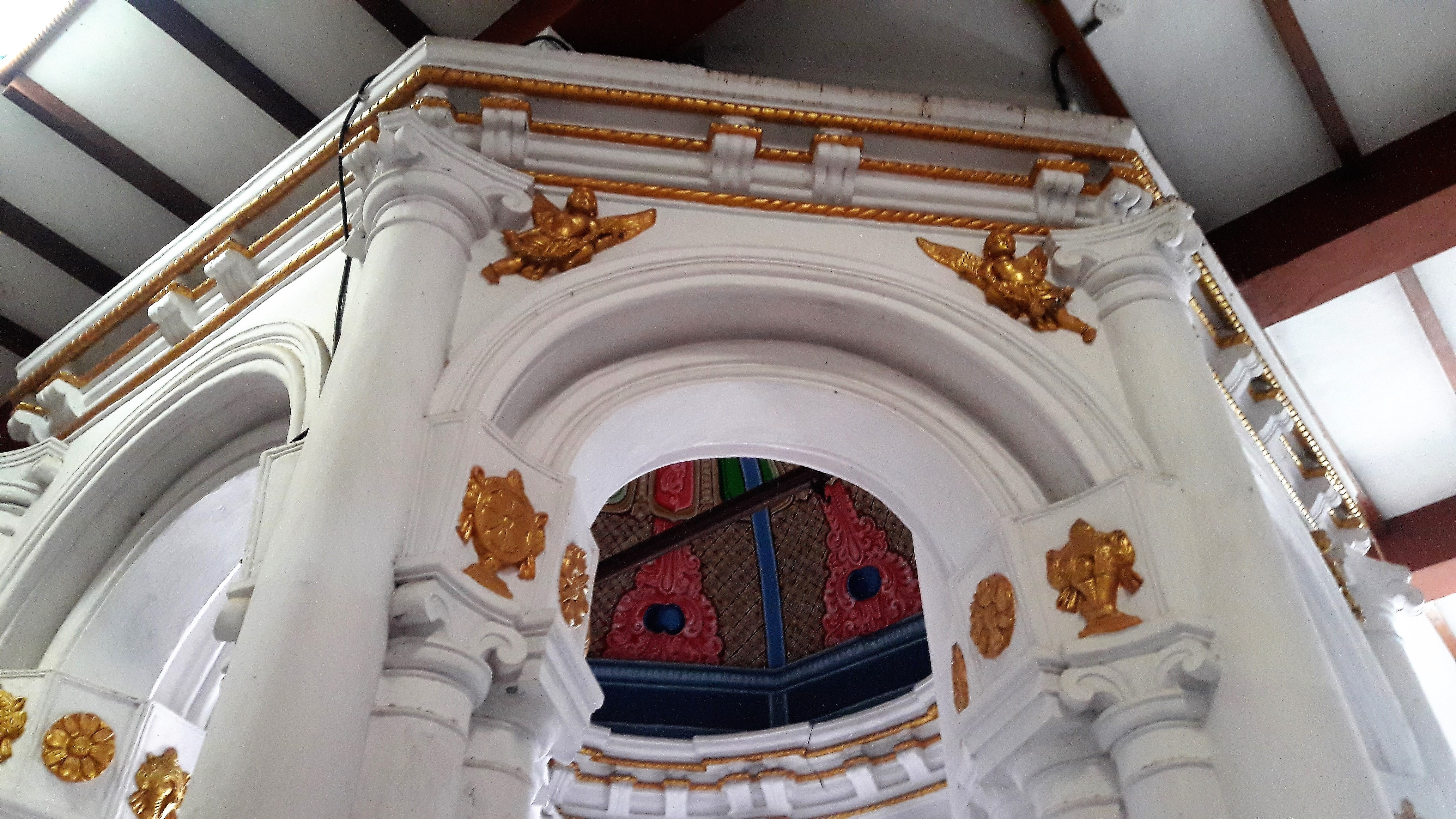 Varadaraja Perumal Temple, Pondicherry